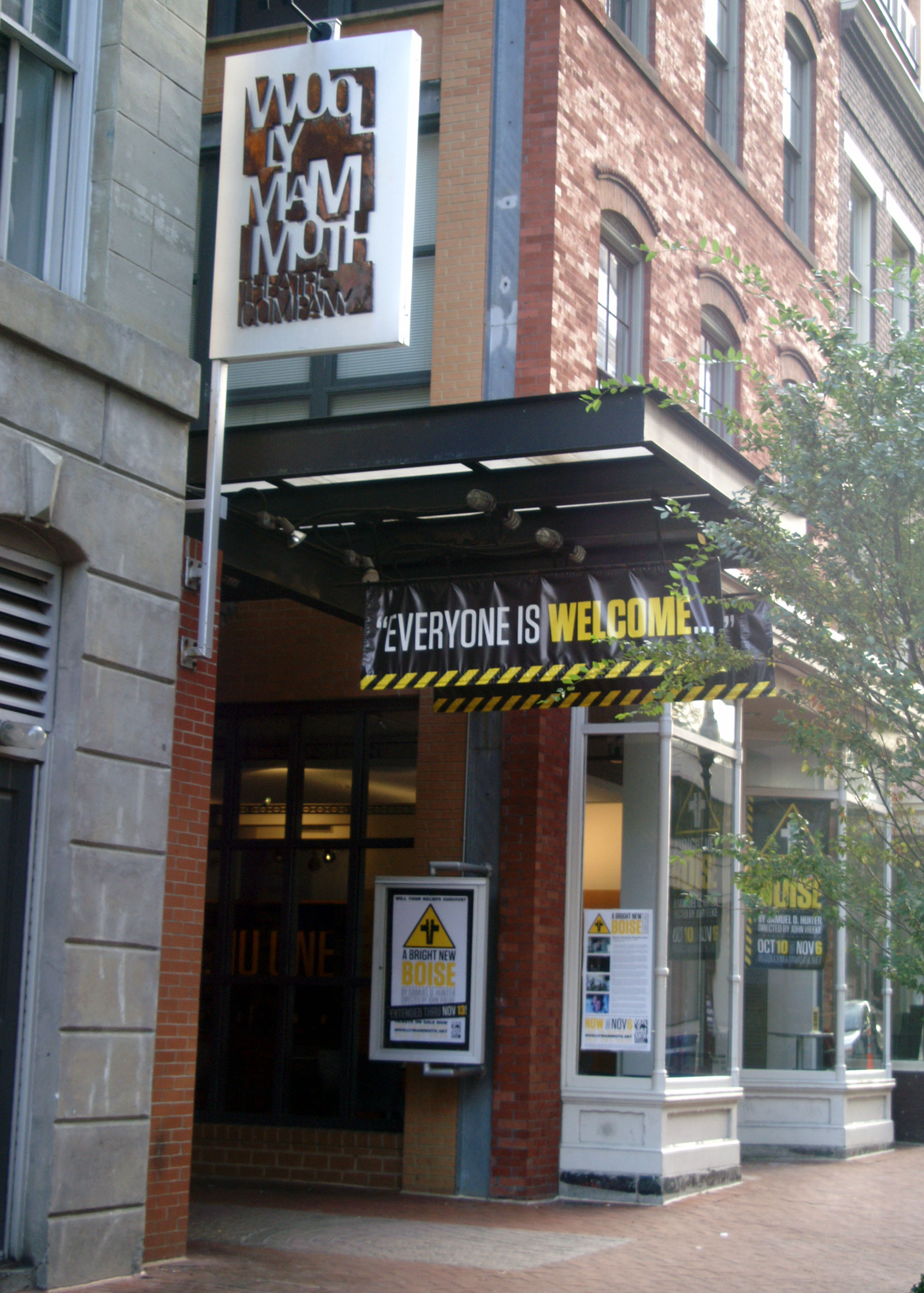 The entrance to the Woolly Mammoth Theatre Company during the run of Second City's "Spoiler Alert, Everybody Dies"